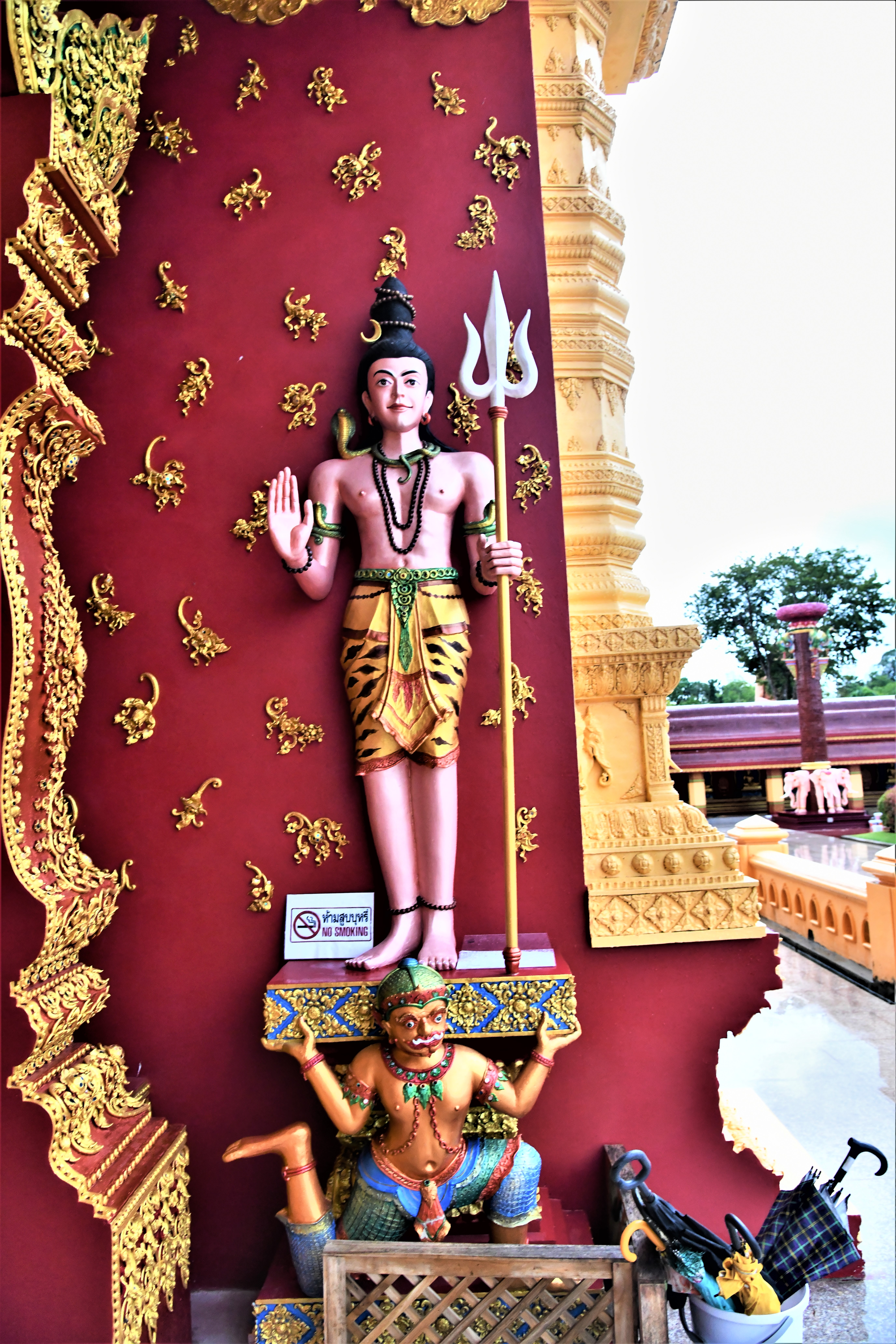 Thai Folk This photo has been taken in the country: Thailand